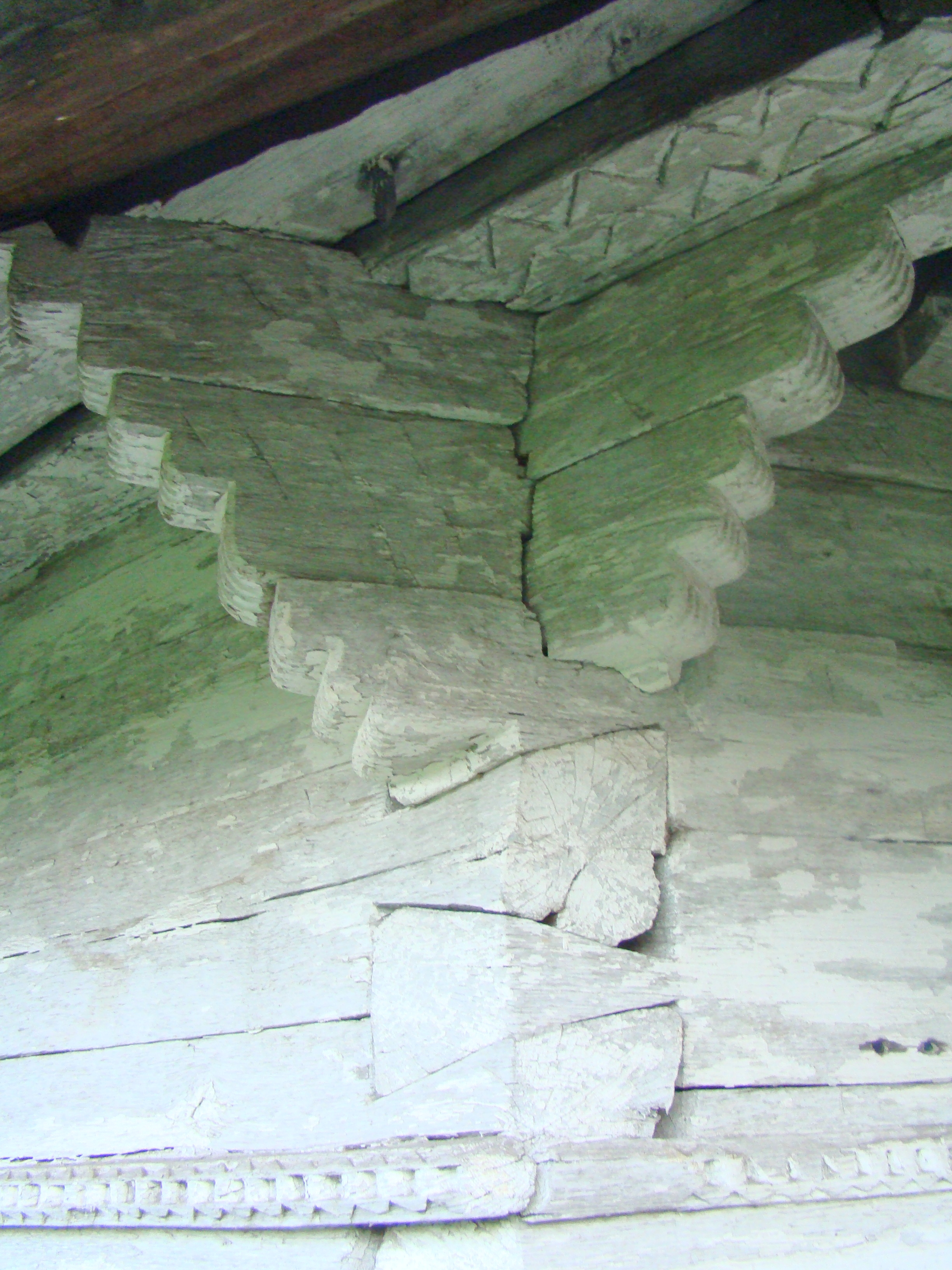 Wooden church in Fărcășești-Broștenița, Gorj county, Romania